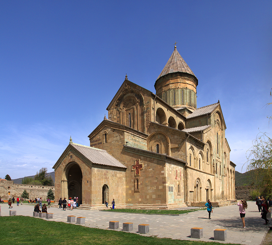 Svetitkhoveli Cathedral, a medieval Eastern Orthodox cathedral in Mtskheta, Georgia